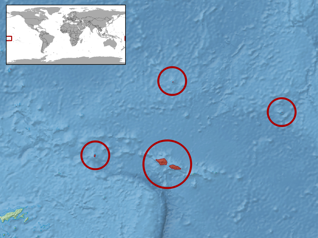 geographic distribution of Emoia adspersa (Native: American Samoa (American Samoa, American Samoa, Swains Is.); Cook Islands (Cook Is.); Samoa; Tokelau; Tuvalu; Wallis and Futuna)